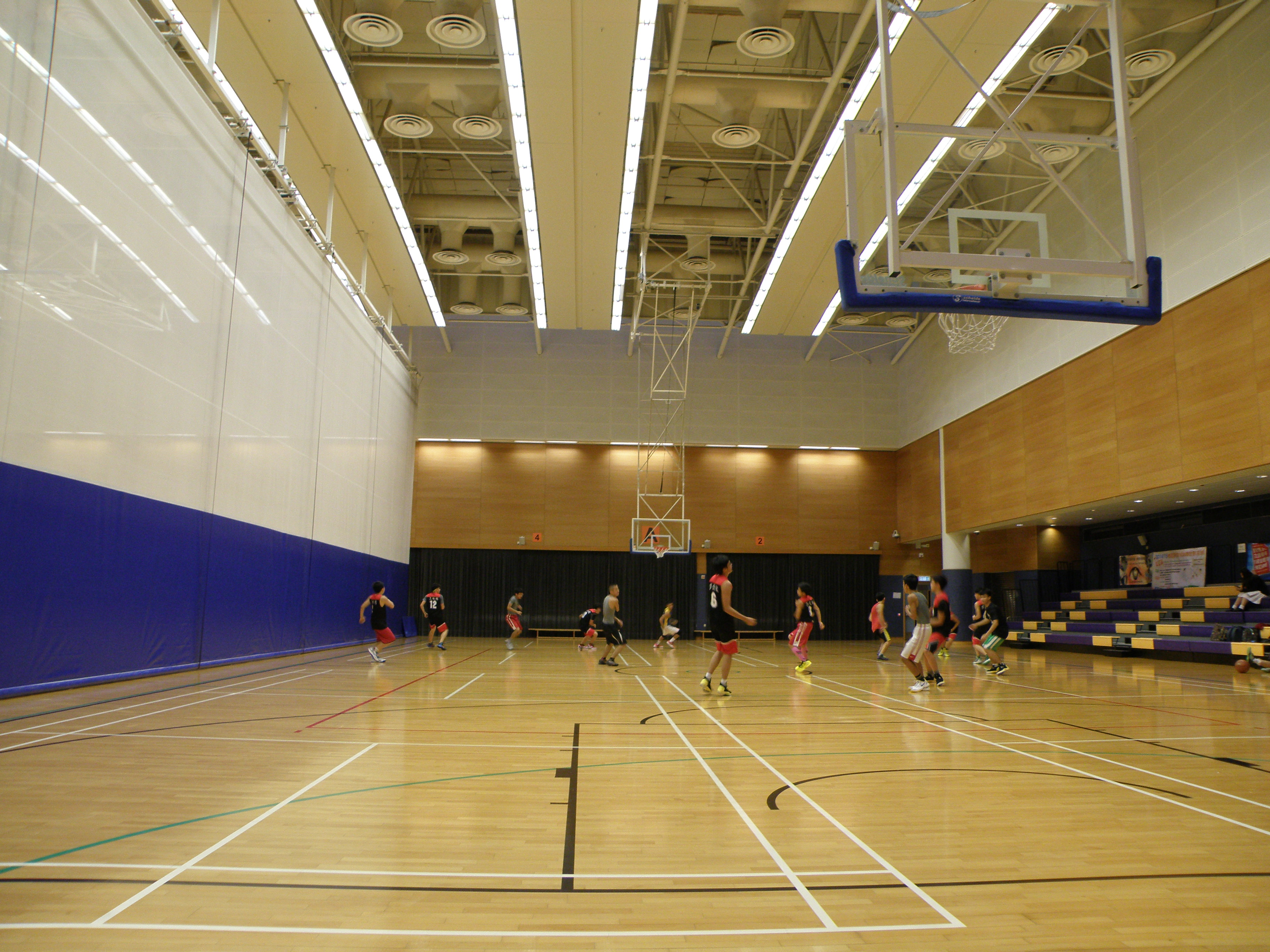 Tai Kok Tsui Sports Centre in Tai Kok Tsui, Hong Kong.